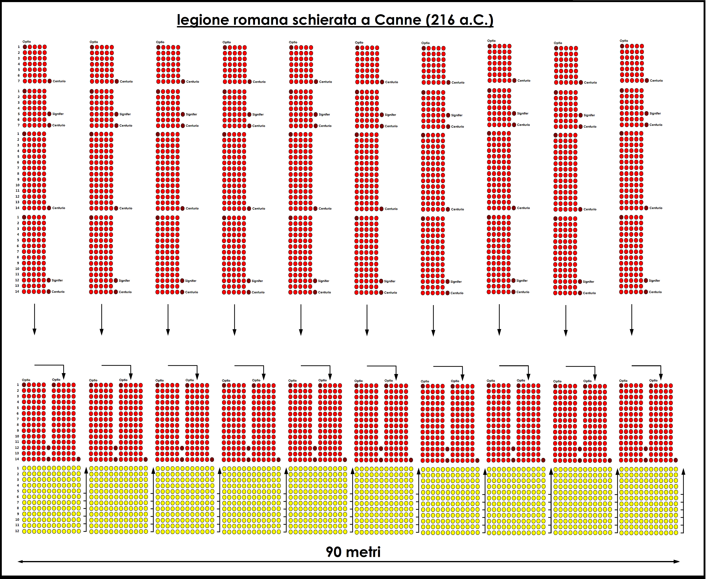 Roman legion at the time of Cannae's battle (216 BC) in Polybius' description - disposition